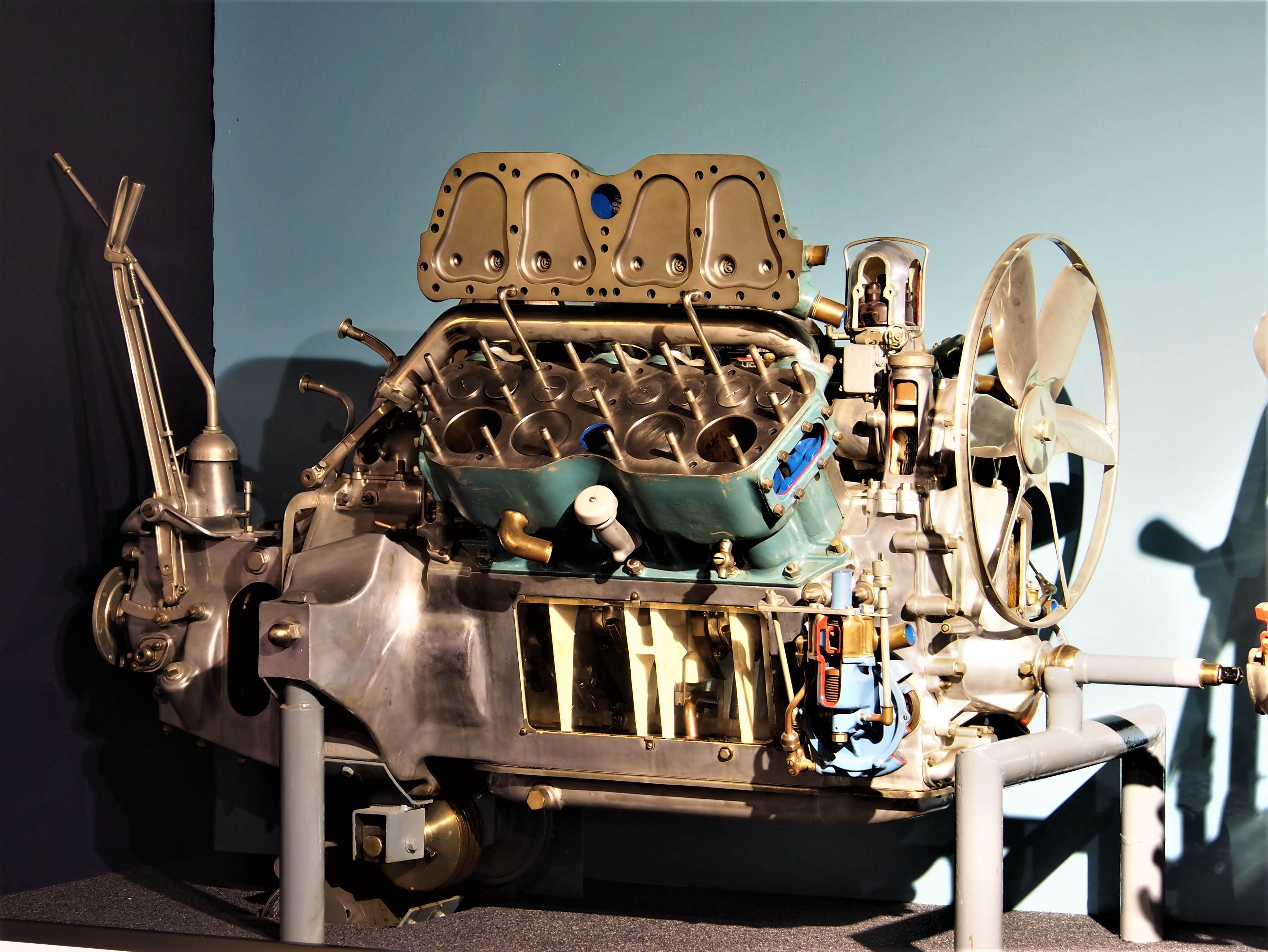 Photographed at the Louwman museum.